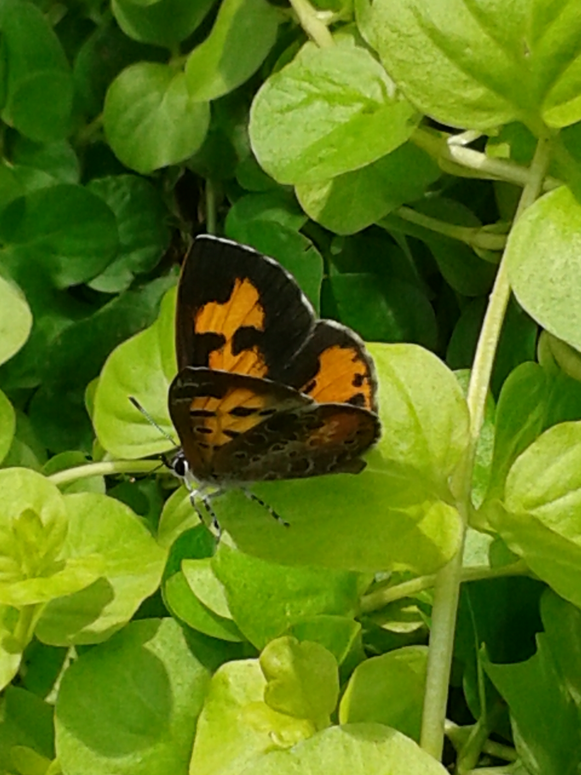 Harverster (Feniseca tarquinius) observed at Montréal's Botanical Garden.